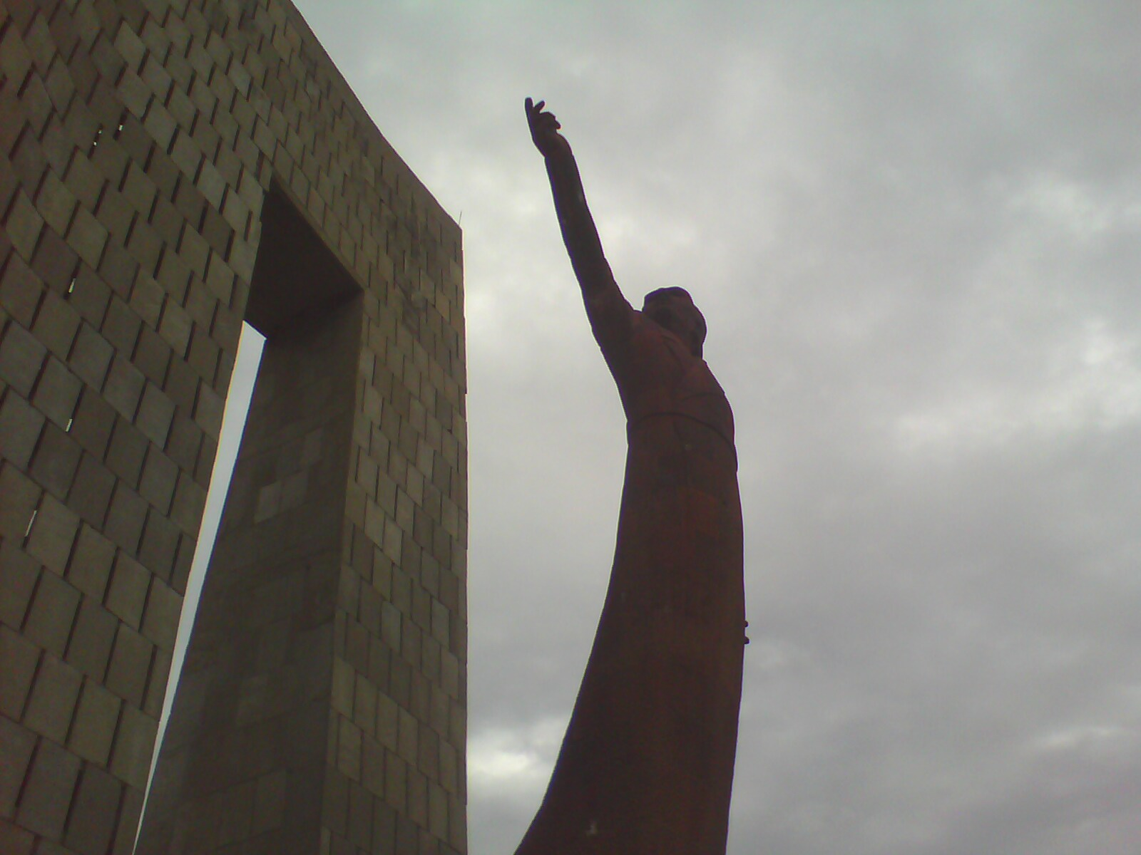 miguel hidalgo